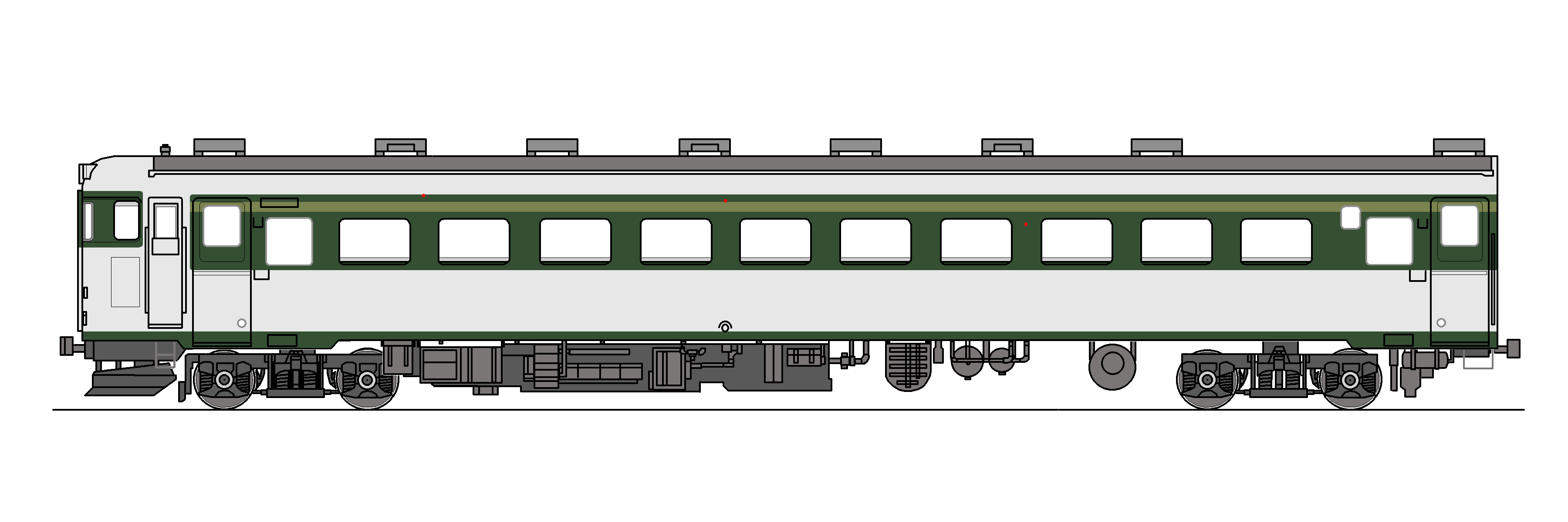 The side view of the DMU type 29 of JNR, Japanese style Car "Kyutsurogi".